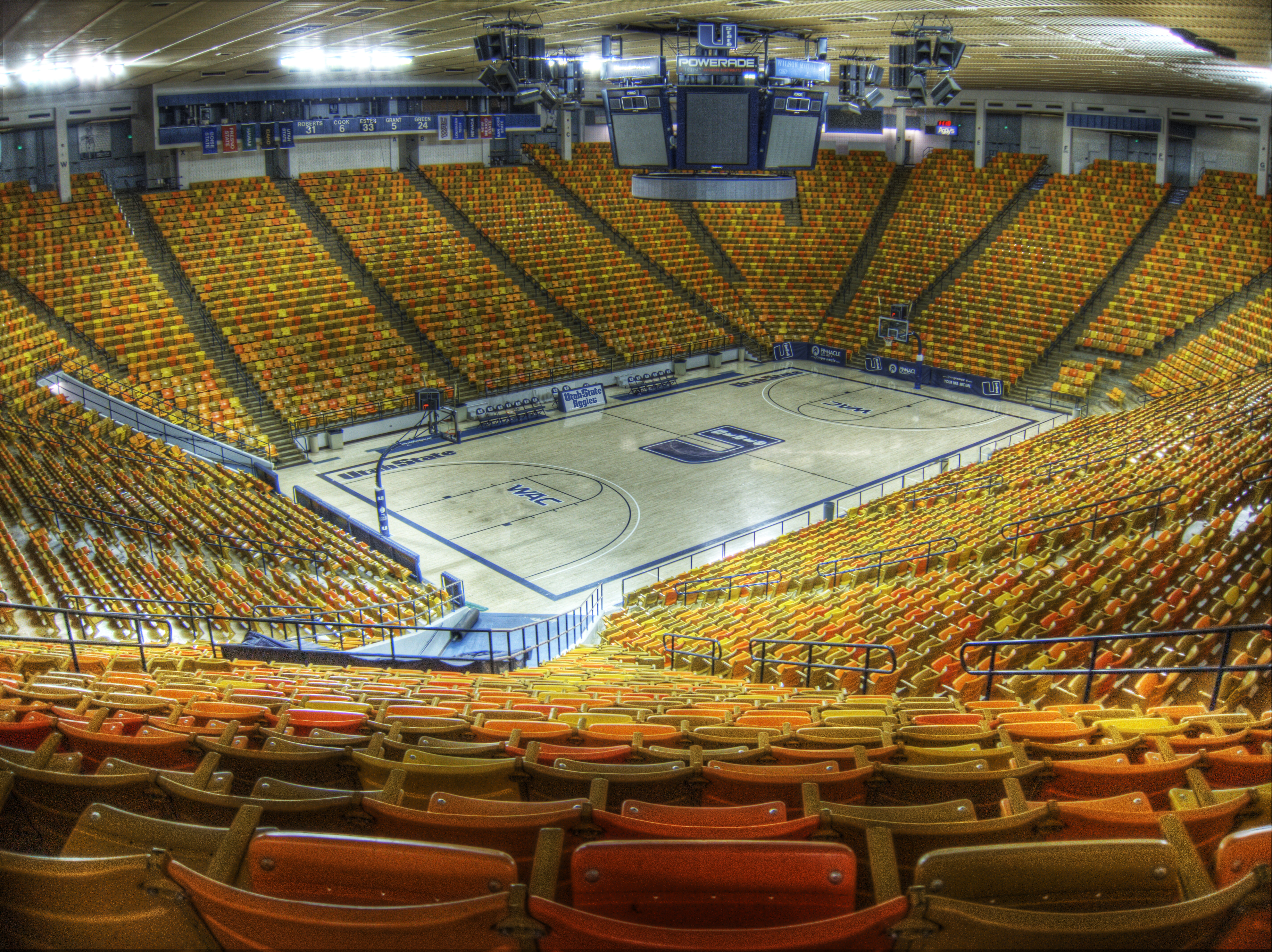 This is a photo of the interior of the Dee Glen Smith Spectrum on the Campus of Utah State University.